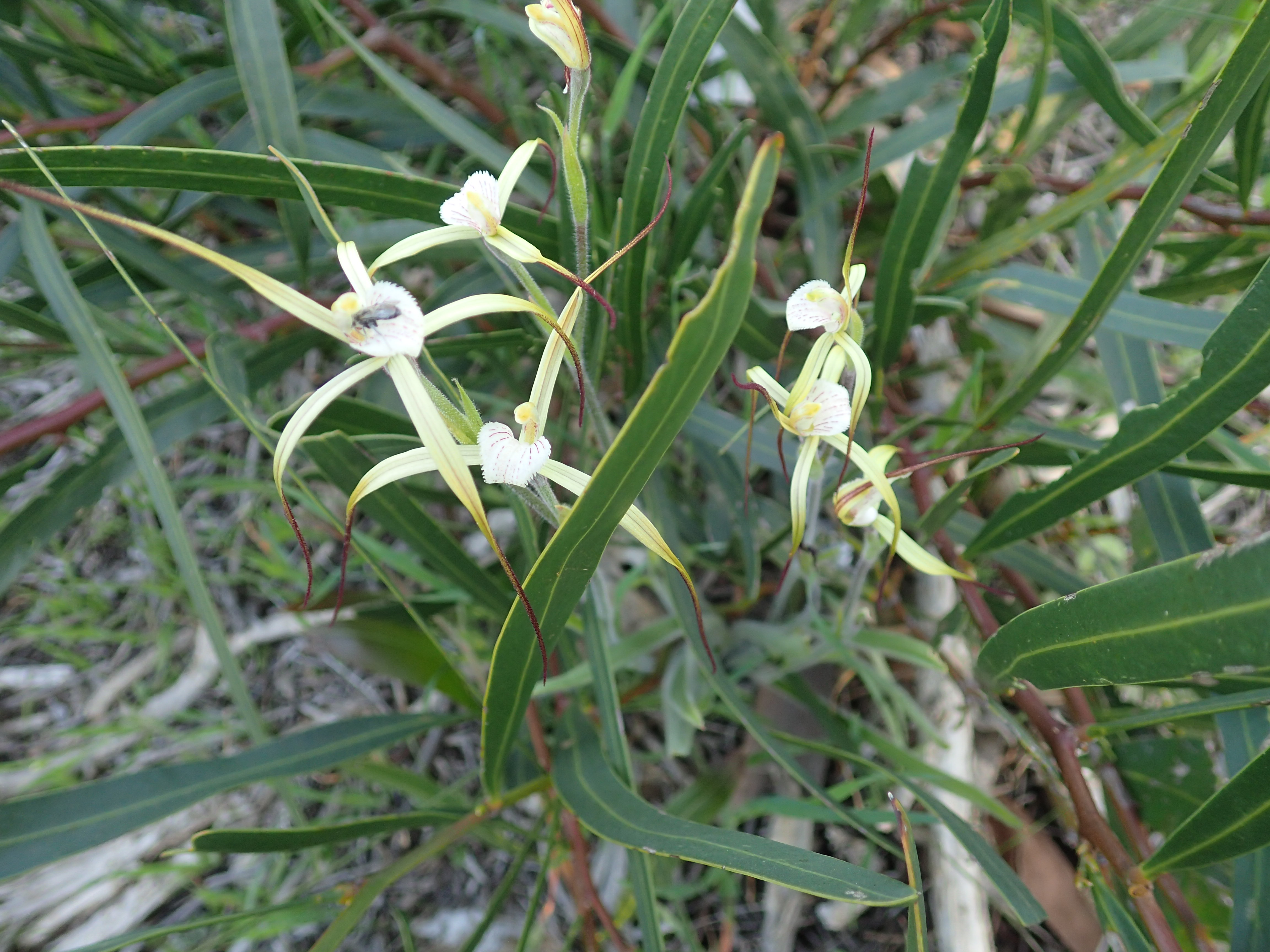 Caladenia denticulata subsp. denticulata growing at the Hill River crossing on the Brand Highway near Badgingarra